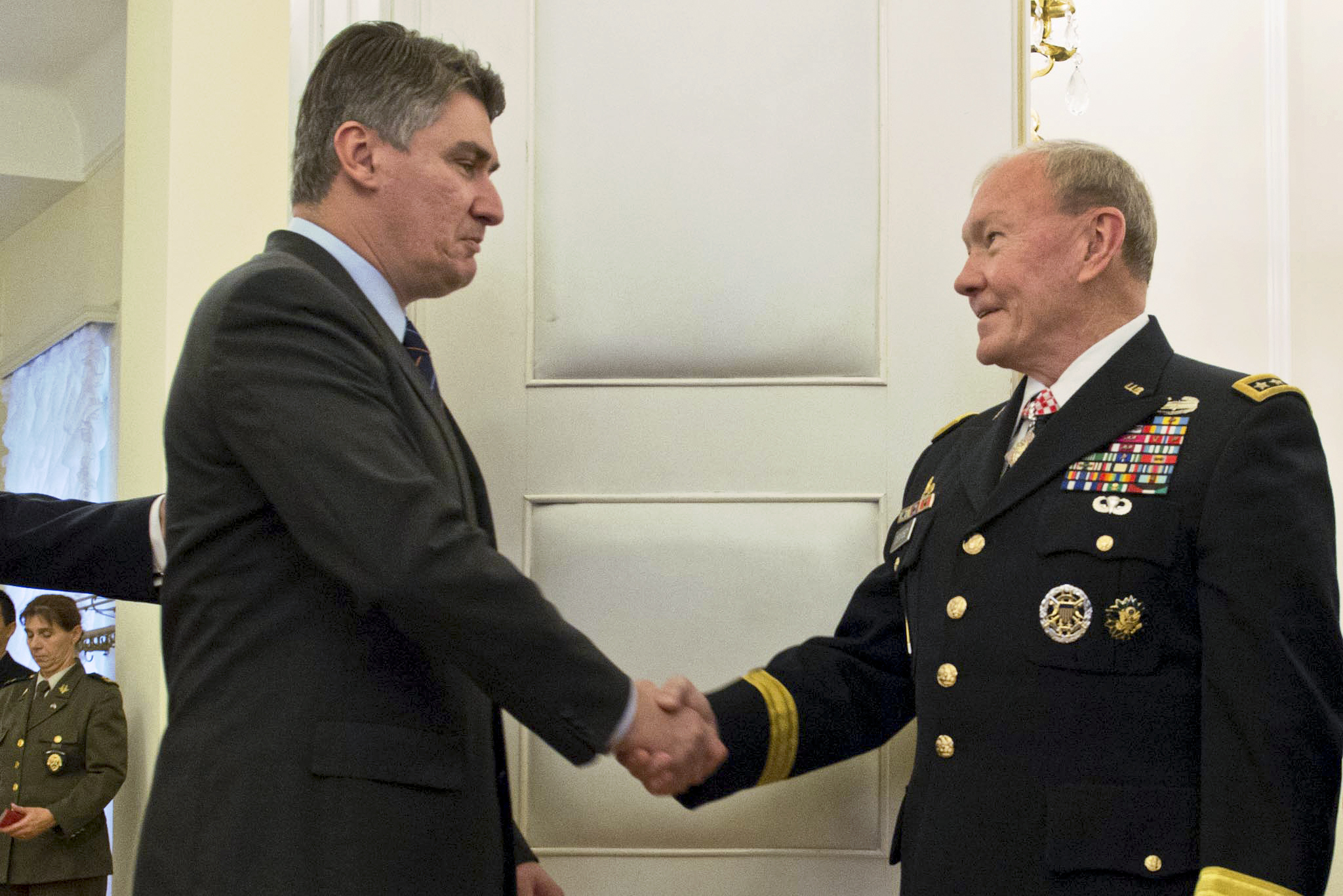 Croatian Prime Minister Zoran Milanovic and U.S. Army Gen. Martin E. Dempsey, chairman of the Joint Chiefs of Staff, meet in Zagreb, Croatia, Sept. 22, 2014.